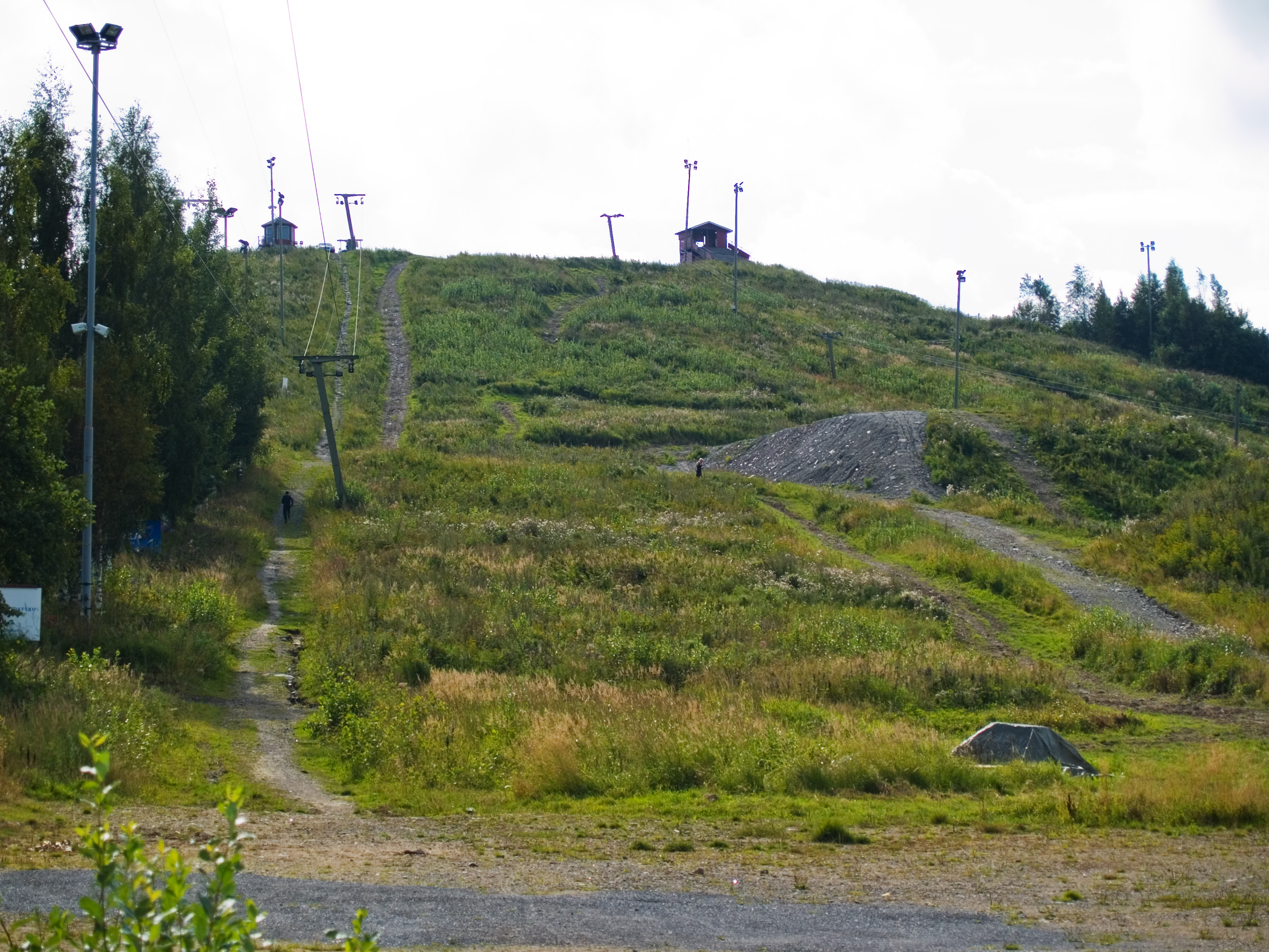 Jouppilanvuori or "Joupiska" hill in Jouppila, Seinäjoki, equipped with ski lift.